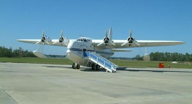 Short Sunderland MK5 Photo by Steve Cole - see more: Fantasy of Flight Trip Gallery from 2006 Fantasy of Flight Trip Gallery from 2004